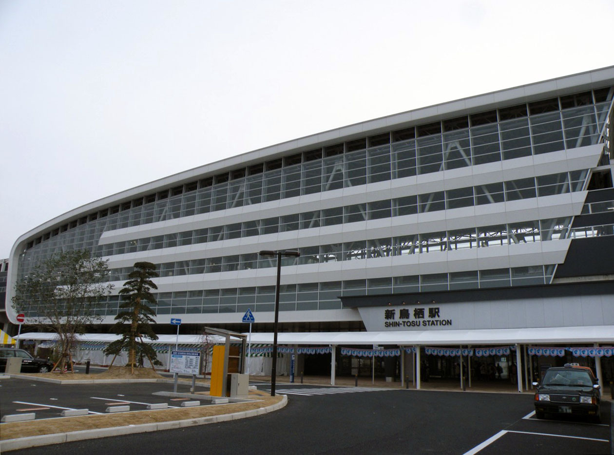 JRKyushu Shin-Tosu Station